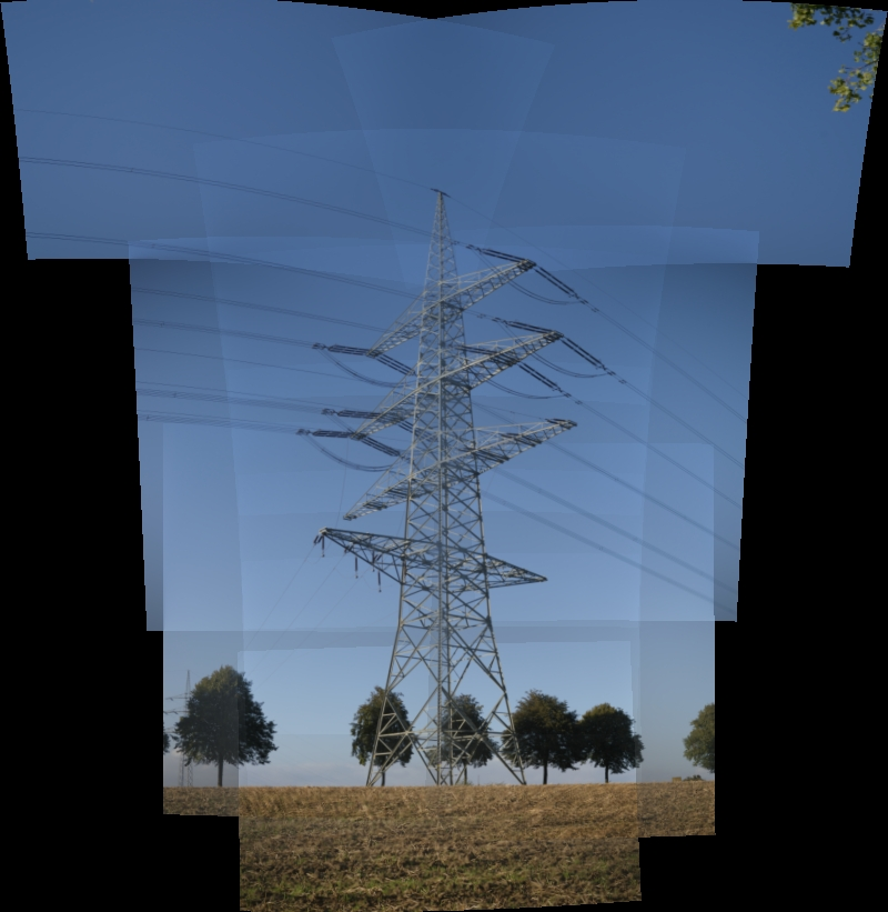 Stitched image with the exposure compensation parameters deliberately set incorrectly, making the individual images visible. This panoramic image was created with Autostitch. Stitched images may differ from reality.